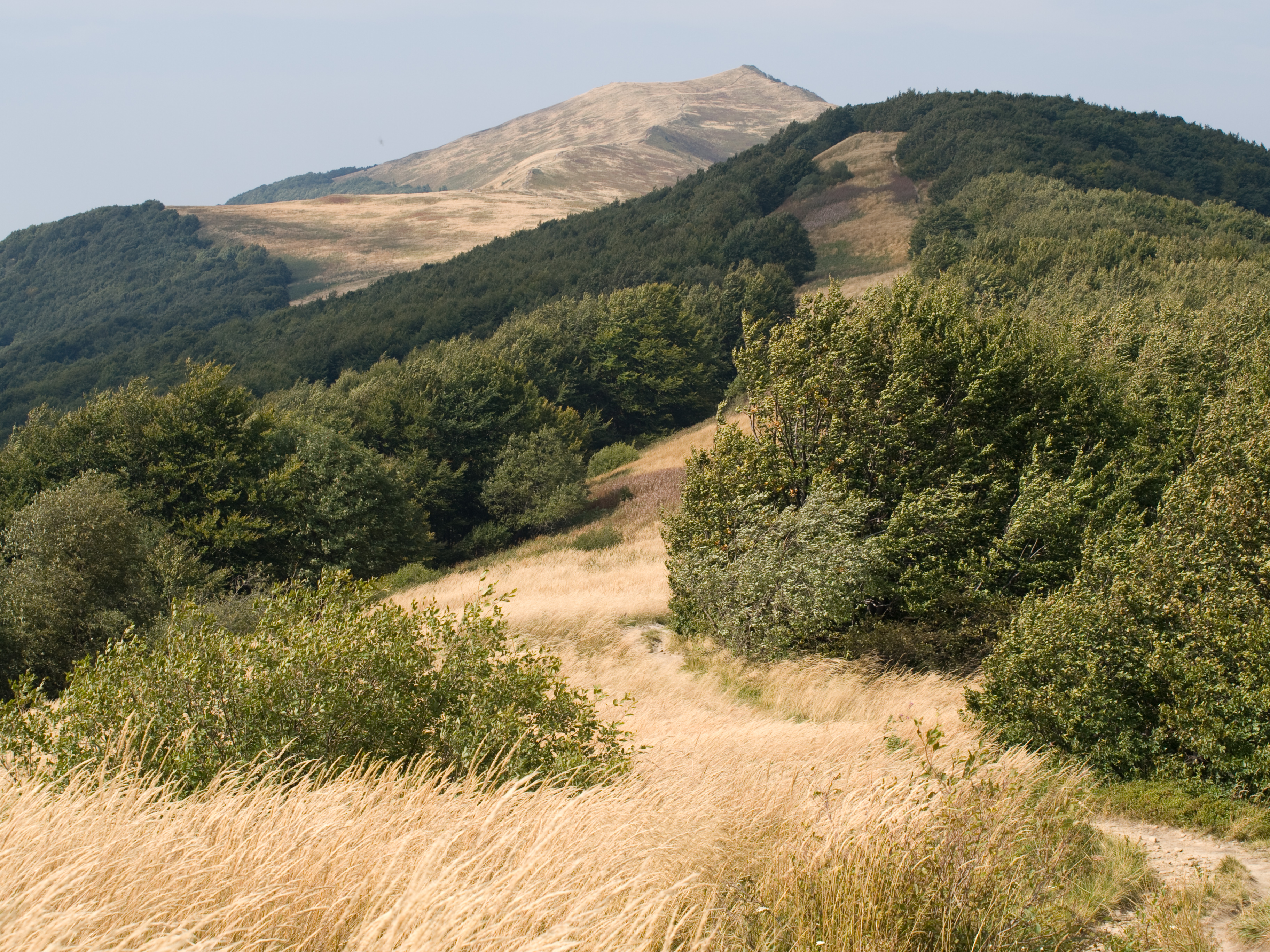 Szare Berdo, Smerek in the background.